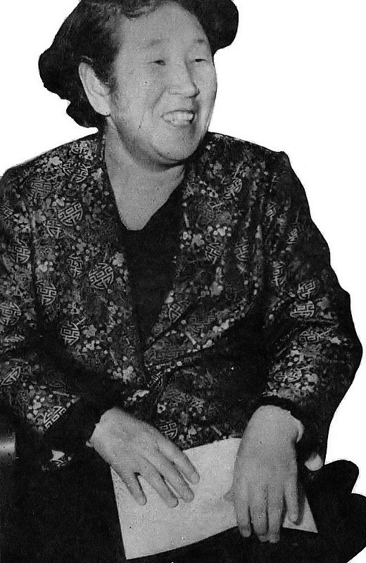 Tomi Koura